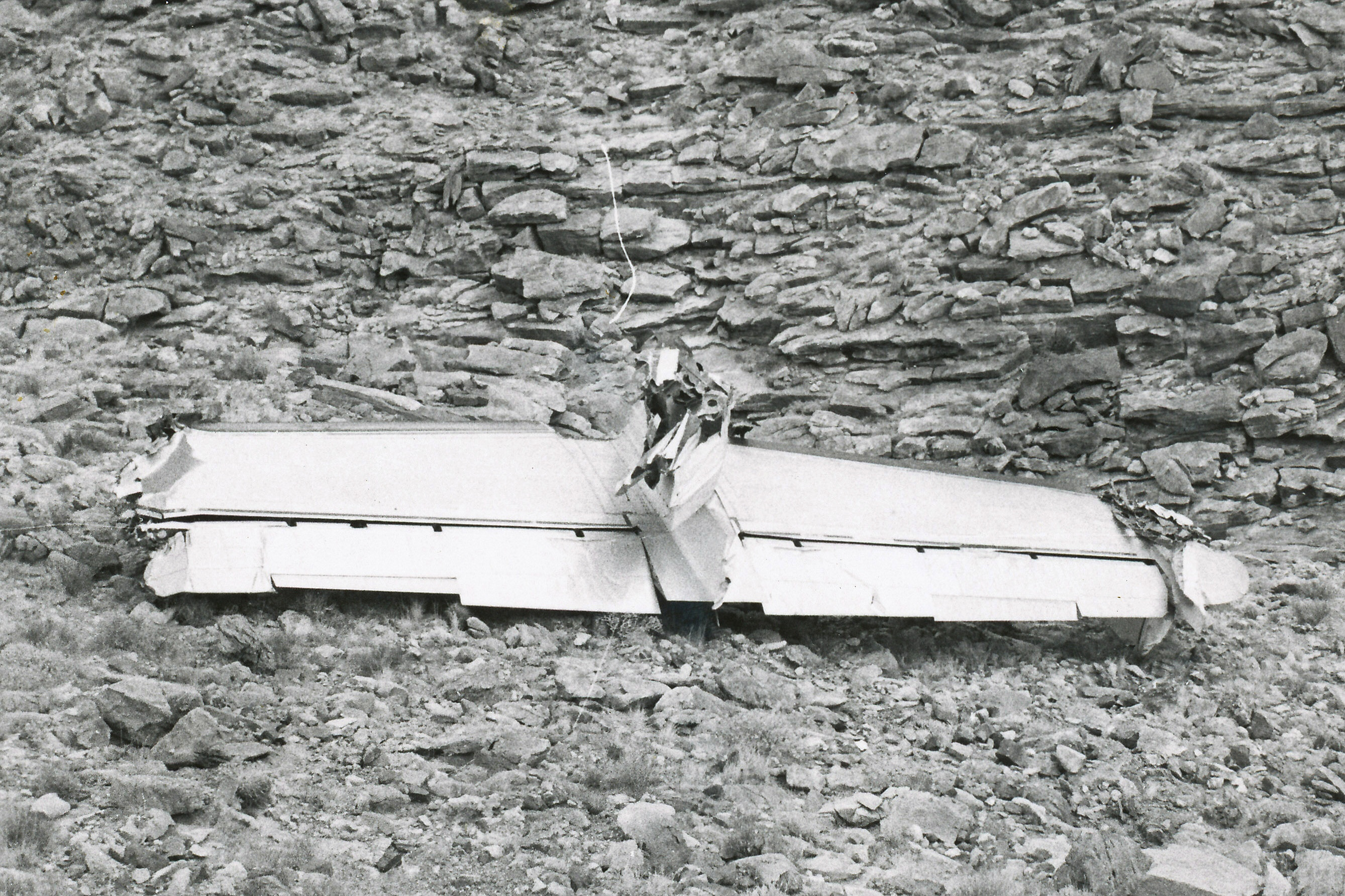 The severed tail section of the Lockheed L-1049 Super Constellation operating as TWA Flight 2 on June 30, 1956. TWA Flight 2 collided with United Flight 718 in what became known as the en:1956 Grand Canyon mid-air collision. The photo was taken by National Park Service employees in the course of the Civil Aeronautics Board's investigation of the crash.